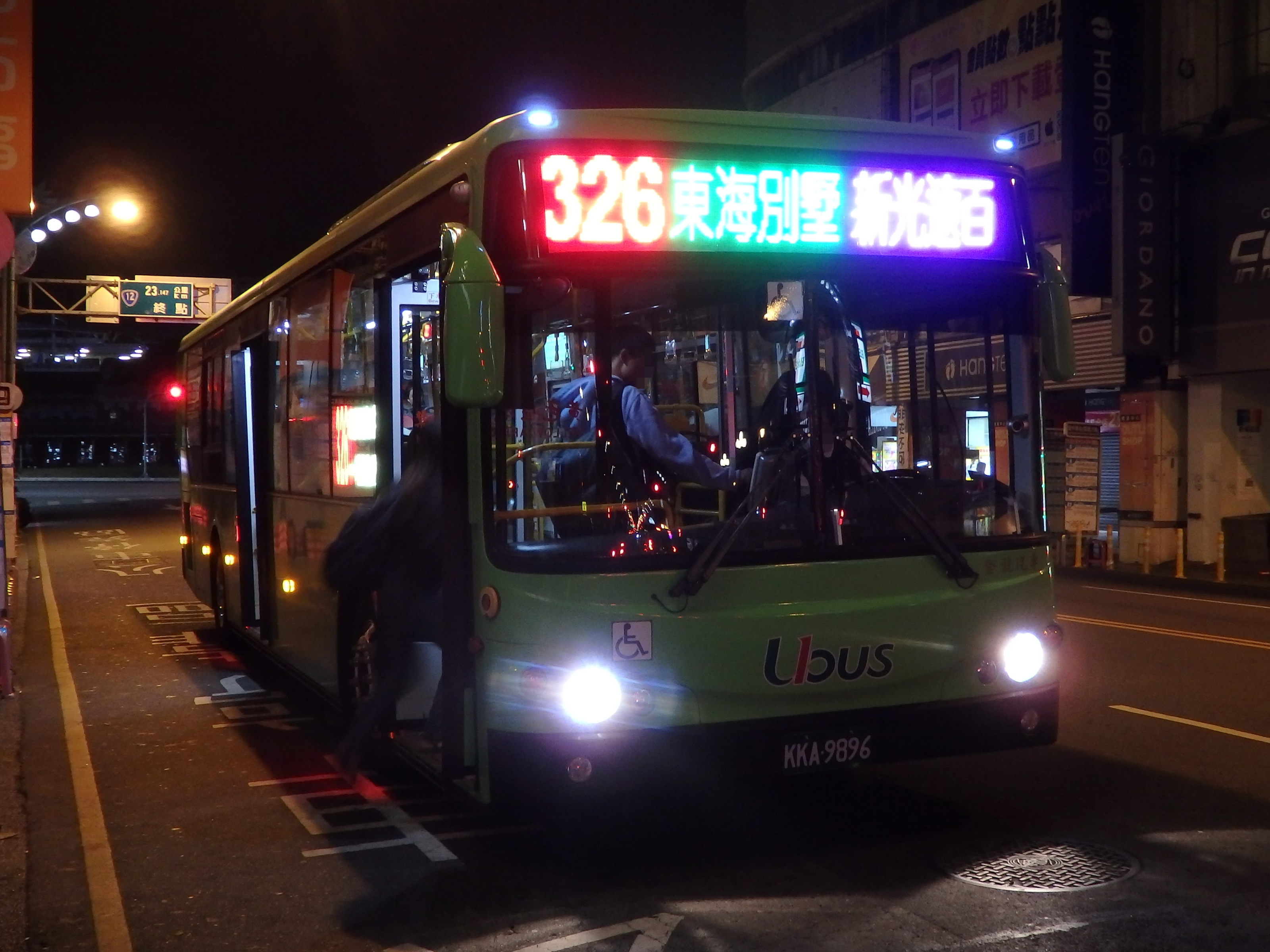 Ubus No.326(Teichung City Bus) Mercedes-Benz/Jinlong Type KL6120U1 No.KKA-8986 Stopping at Taichung Station